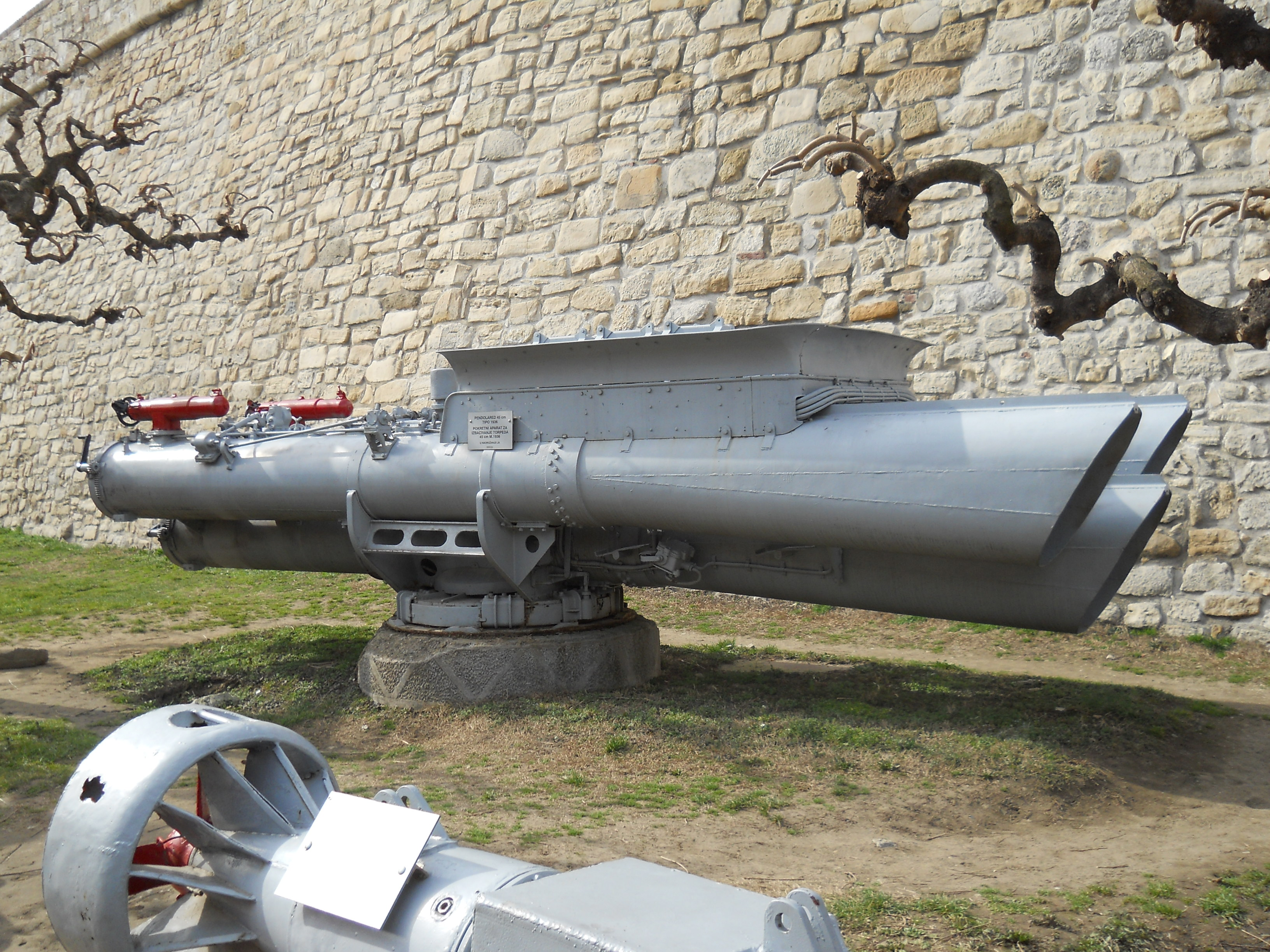 A torpedo launcher M1936